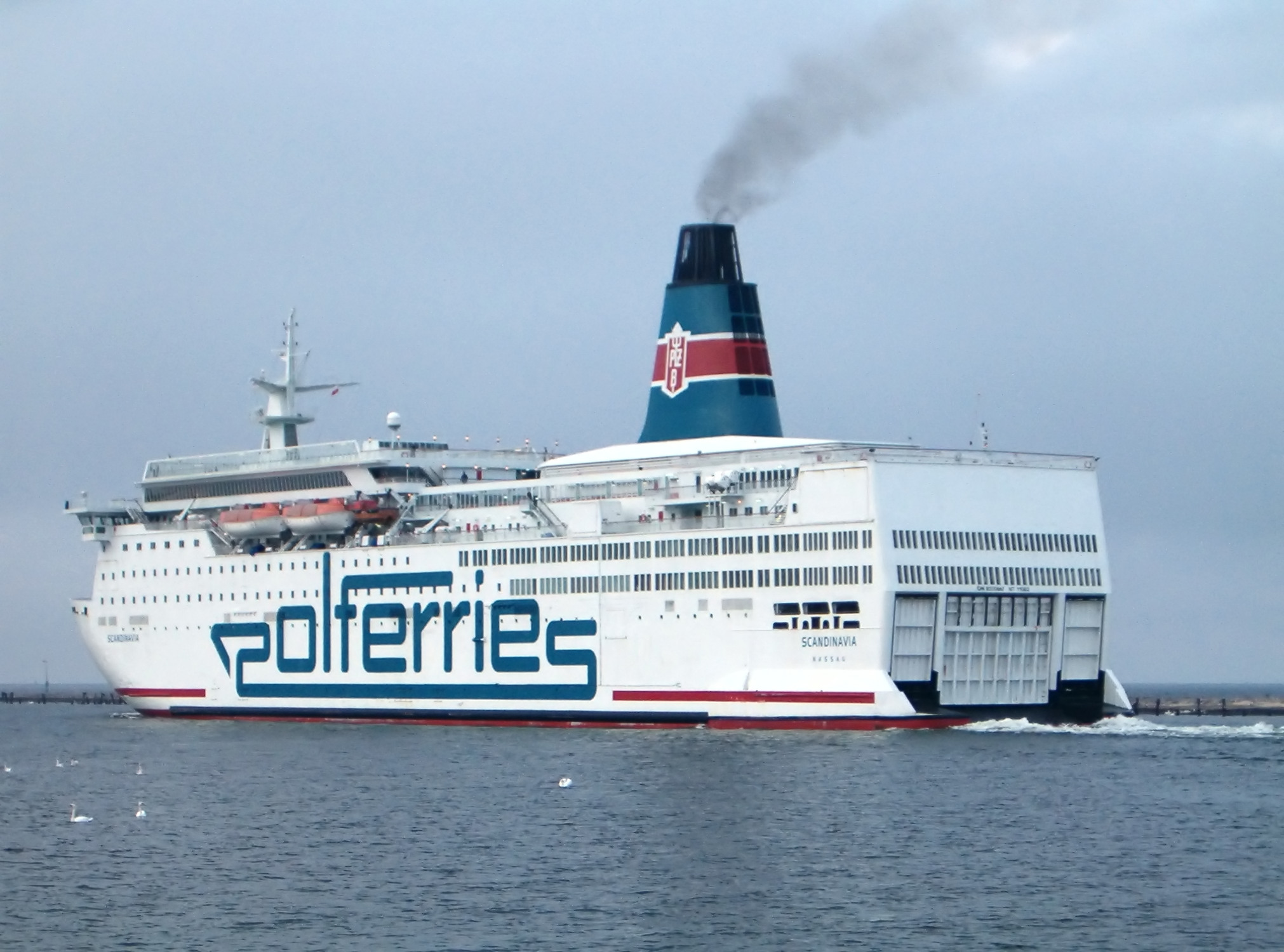 Scandinavia leaving Gdansk, Poland